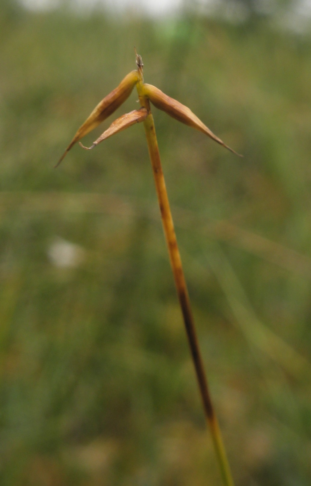 Carex pauciflora